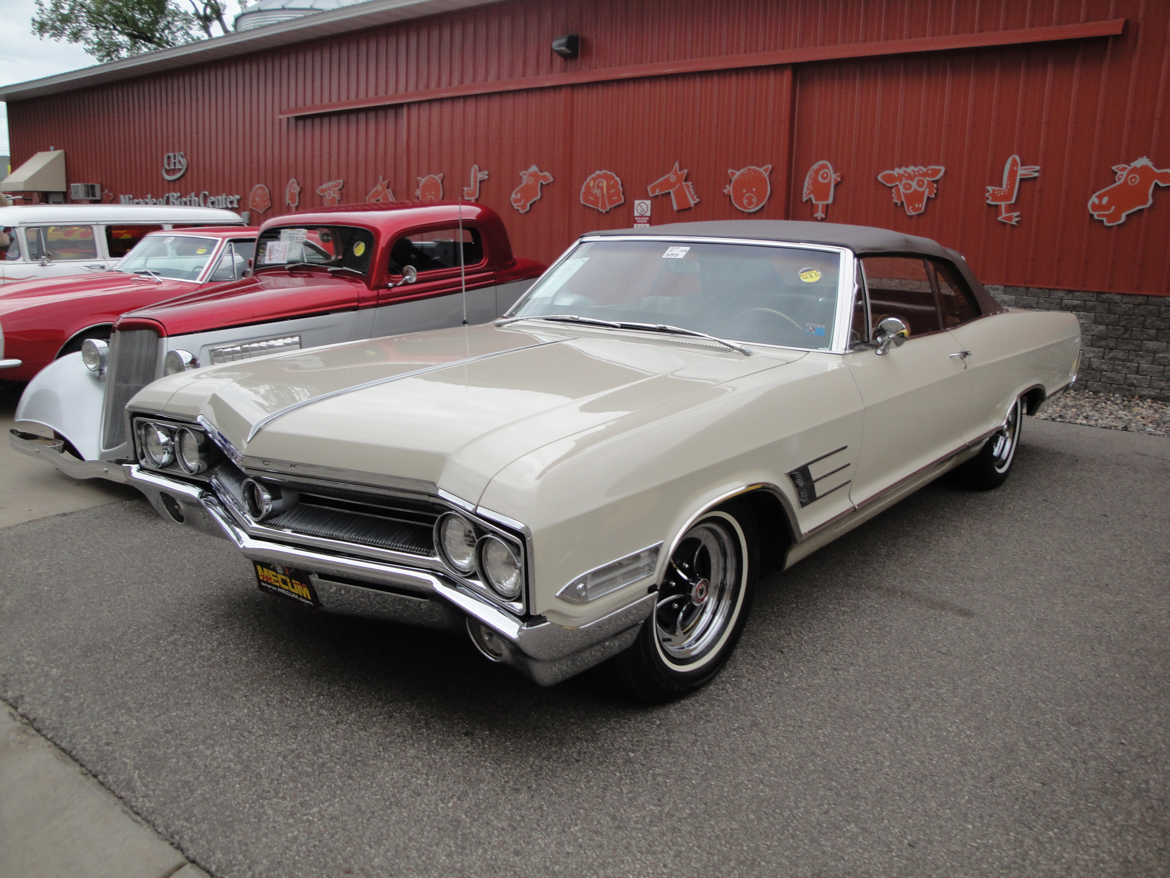 DESCRIPTION - Complete engine rebuild, have rebuild sheet - Complete driveshaft rebuild, have build sheet - Electric fuel pump - Power seat - Power windows - Power top - Power brakes - Power steering - AM/FM radio - Buick mag wheels - New 2 1/2" dual exhaust Minnesota Street Rod Association 39th Annual "Back to the Fifties" June 2012 Minnesota State Fairgrounds St. Paul MN Thousands of car pictures at the link below